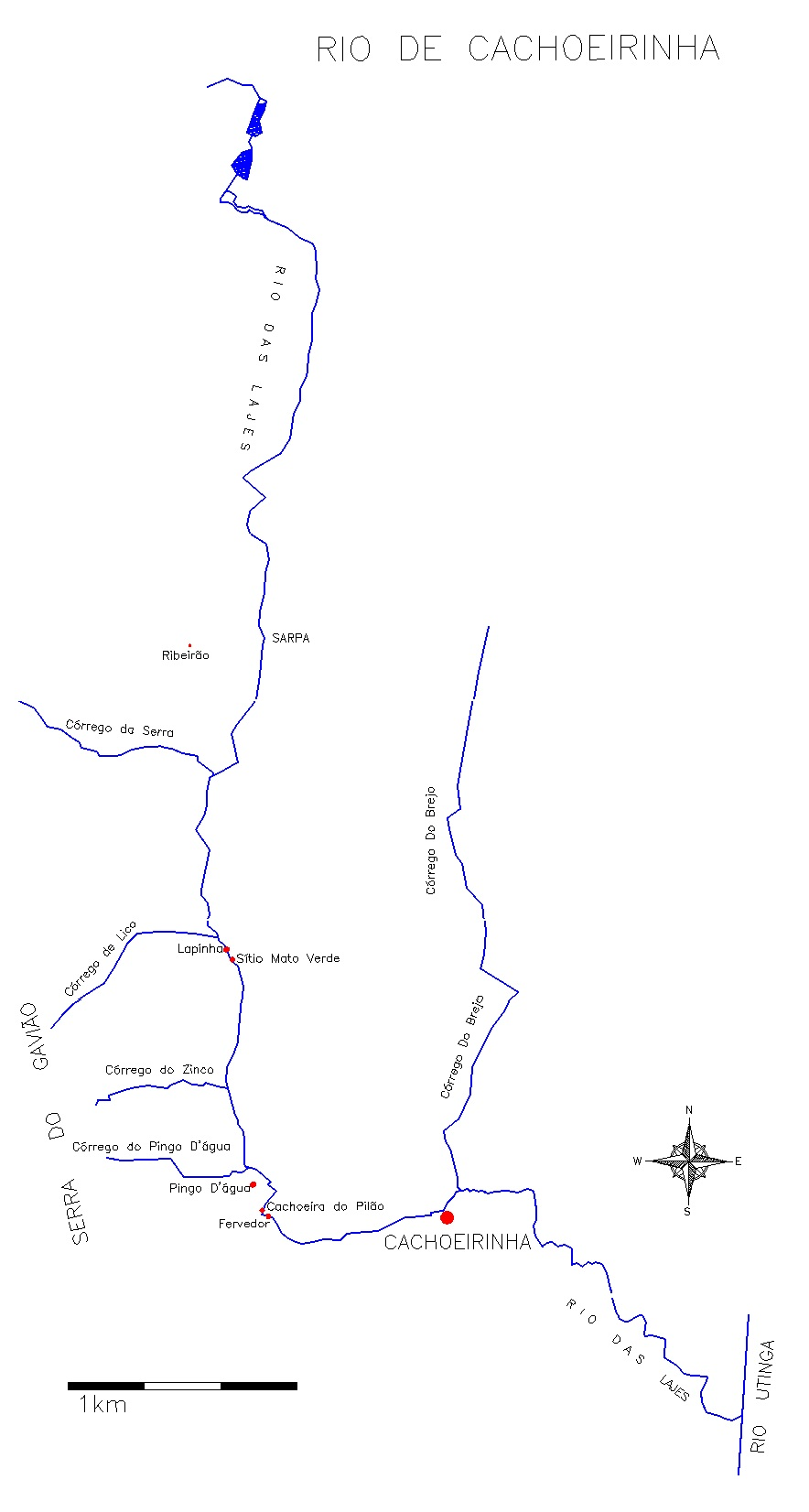 This is tha map where we can se the Rio de Cachoeirinha (River of Cachoeirinha) locatad in Chapada Diamantina, Bahia Brazil.